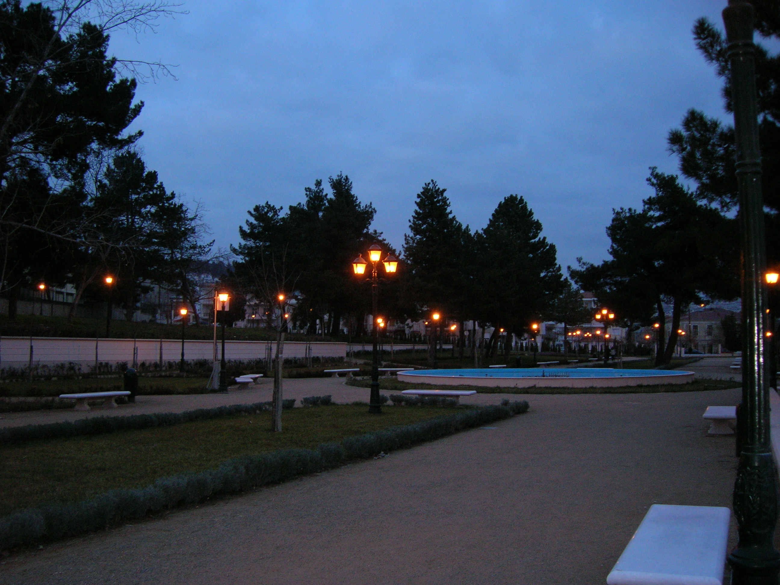 User:Makedonas is the creator of this work.